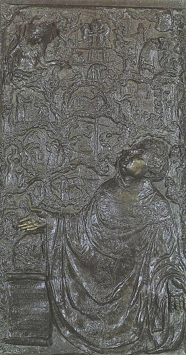 Memorial Plaque for Abbot Anscar Vonier by Benno Elkan. The abbot is seen offering his life's work to the Virgin Mary, amidst scenes from his life. The shipwreck of the `Sirio', his early dream of rebuilding the Abbey, monks building at Buckfast, his work as a scholar, and finally the consecration of the Abbey Church in 1932. Shortly after the building was completed, Anscar died in December 1938. A skeleton representing death is tapping him at the shoulder.